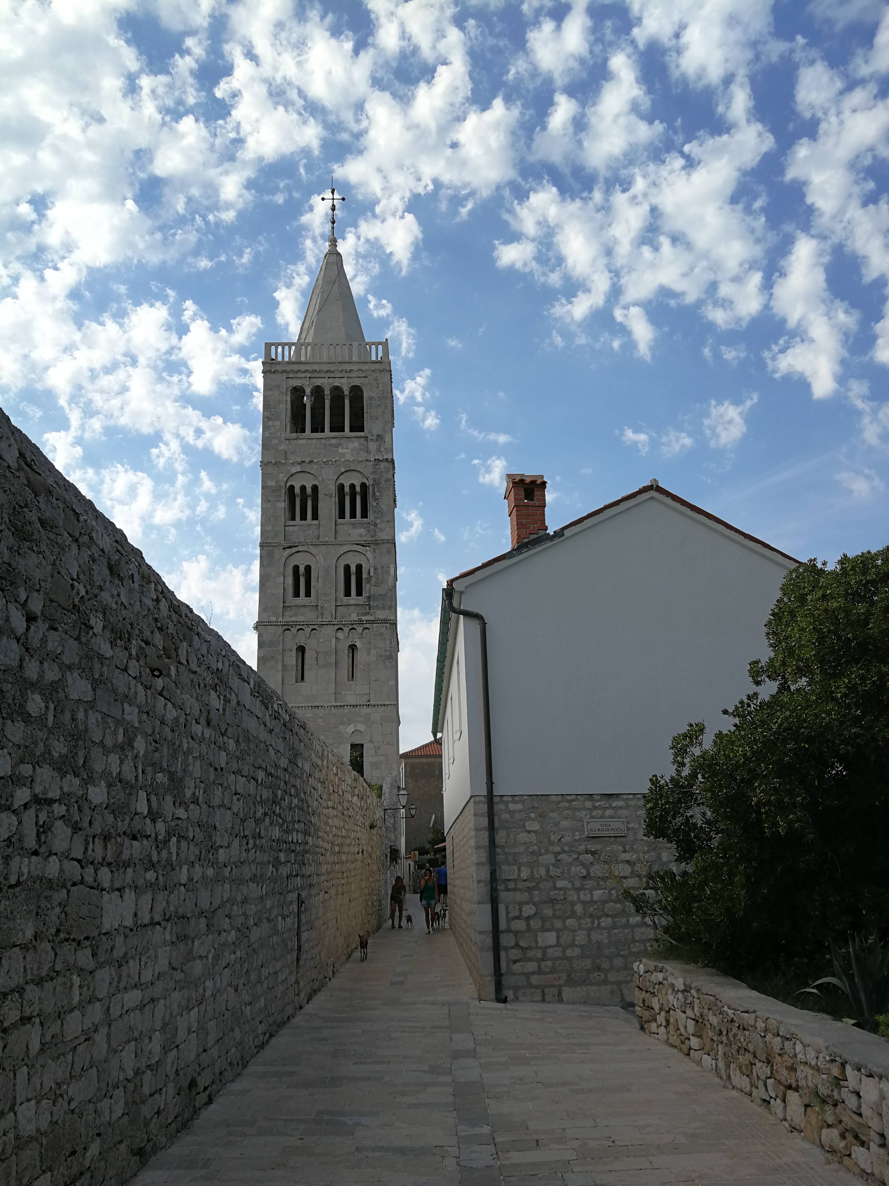 Belfry of the Cathedral of the Assumption of the Blessed Virgin Mary (Rab)